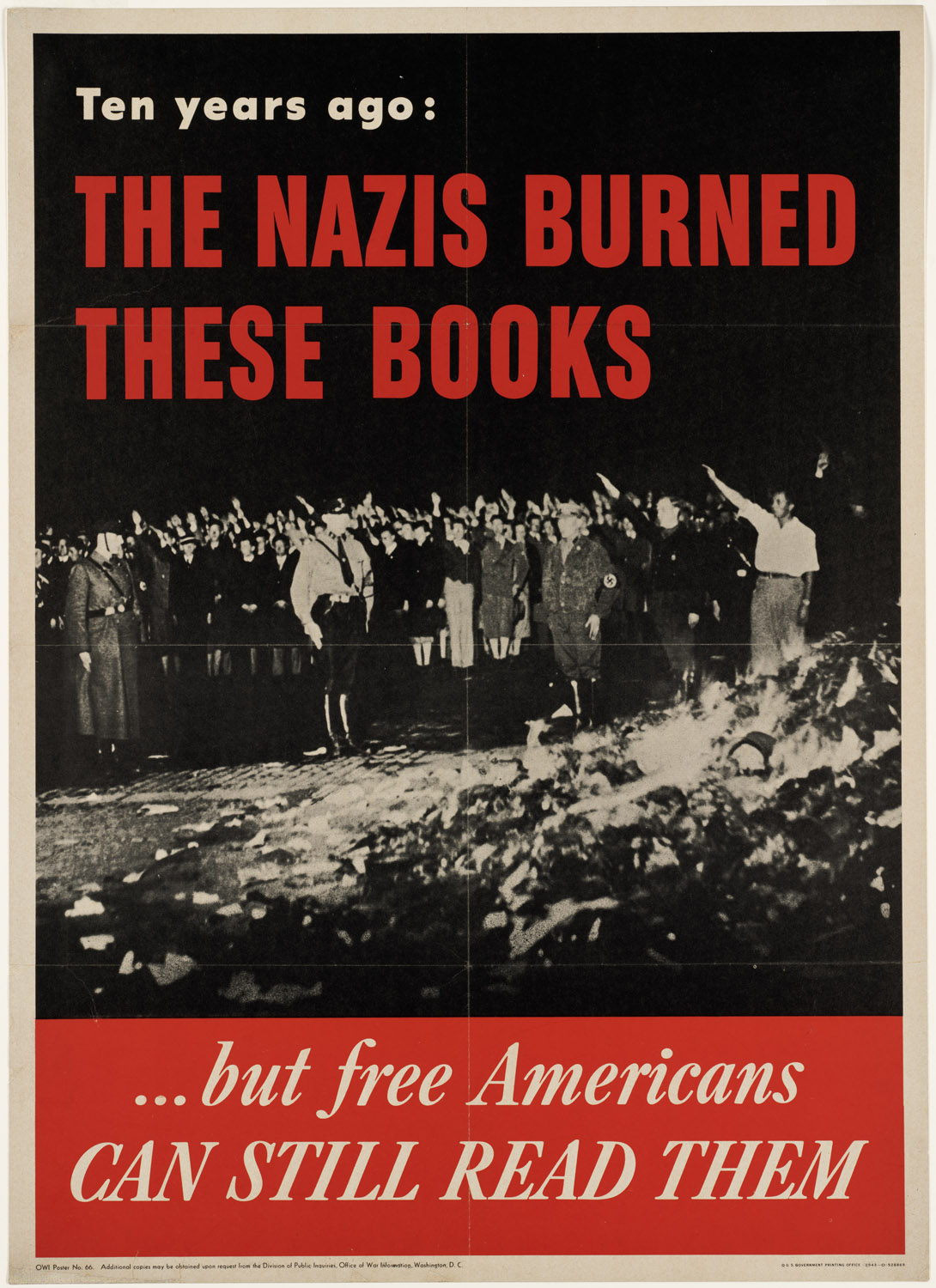 Accession No.: 07_01_000045 Title: Ten years ago, the Nazis burned these books but free Americans can still read them Publisher: U. S. Government Printing Office Agency: Office of War Information Date: 1943 Period: World War II Format: print (poster) : color Description: Photograph of crowd of people giving the Nazi salute while 3 soldiers stand guard over a smoldering pile of books BPL Department: Print Rights: Public Domain Subject: Book burning--Germany--1930-1940 Nazis--Germany--1930-1940 World War II--United States War posters--United States--1940-1950 Political posters--United States--1940-1950